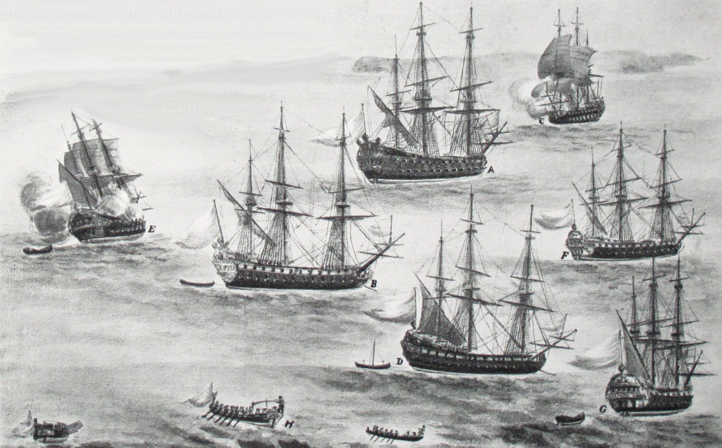 Naval parade organised by Maurepas A. Neptune B. Aimable C. Ardent D. Achille E. Argonaute F. Brillant G. Parfait H. Launch carring Maurepas